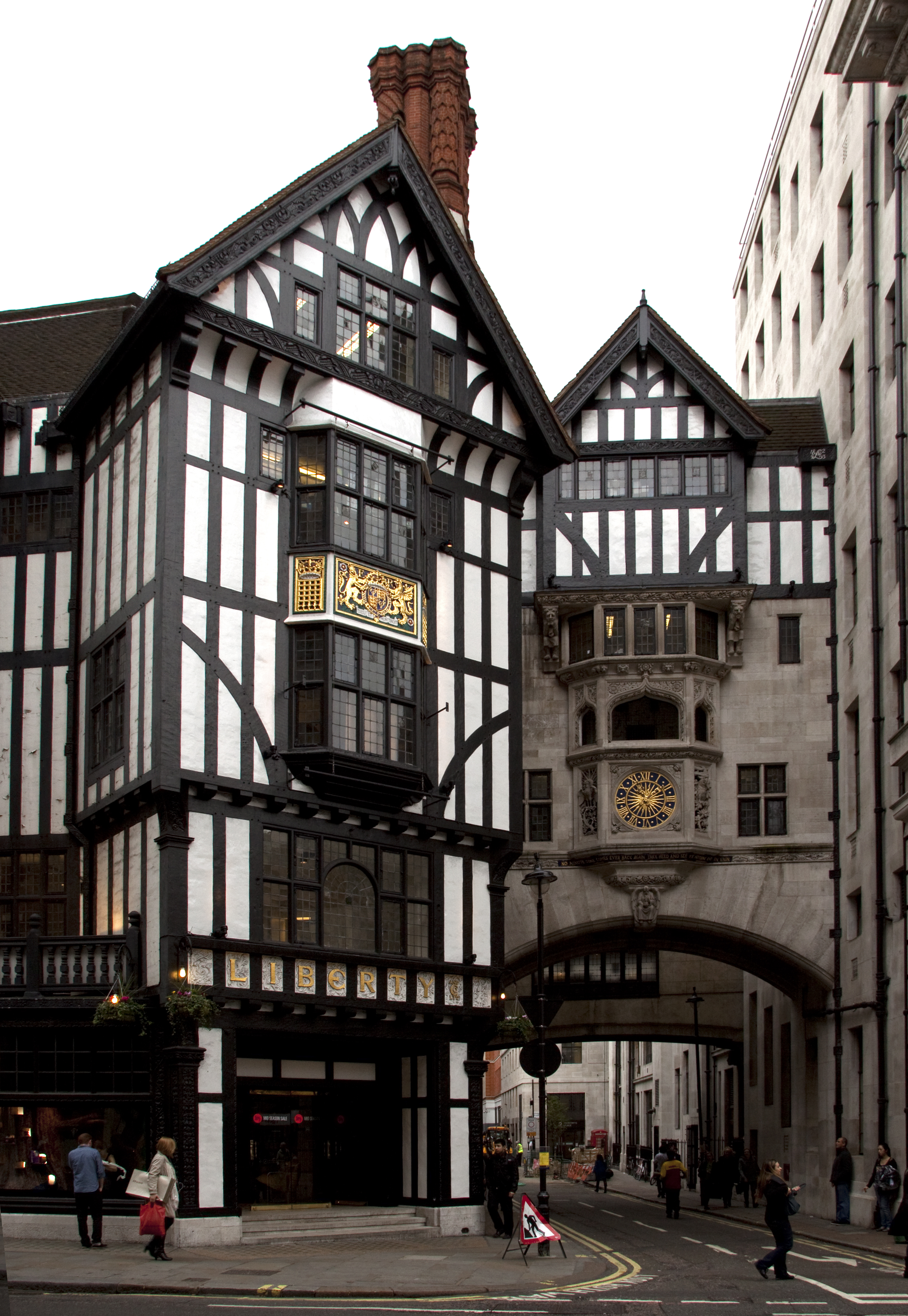 Liberty 3